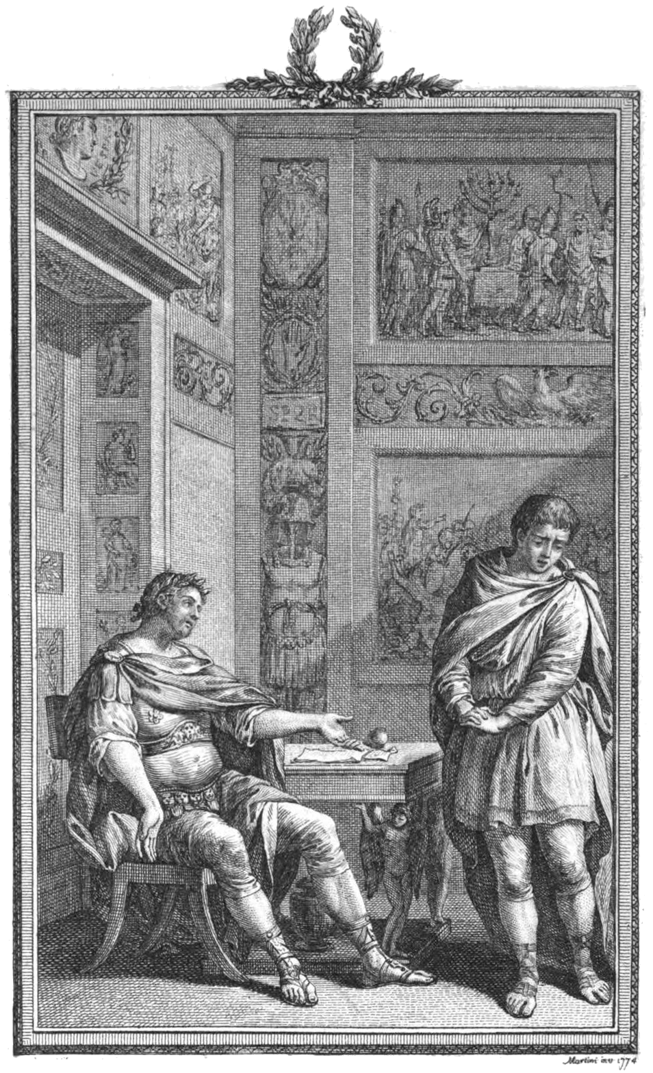 Metastasio - La clemenza di Tito, Atto III, Scena VI. „Apri il tuo core a Tito; / Confidati all’amico: io ti prometto / Che Augusto nol saprà.“